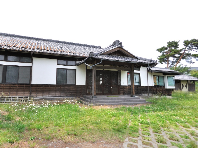 Tomi City Kitamimaki Hometown Museum Building